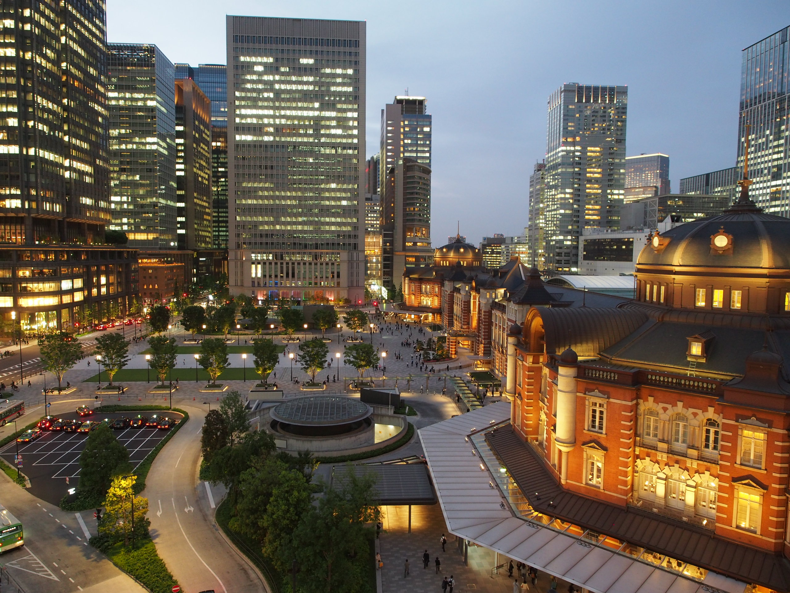 Tokyo Station Marunocuhi Building and surrounding buildings in Marunocuhi at dusk, viewed from JP Tower "Kitte Garden" roof terrace.